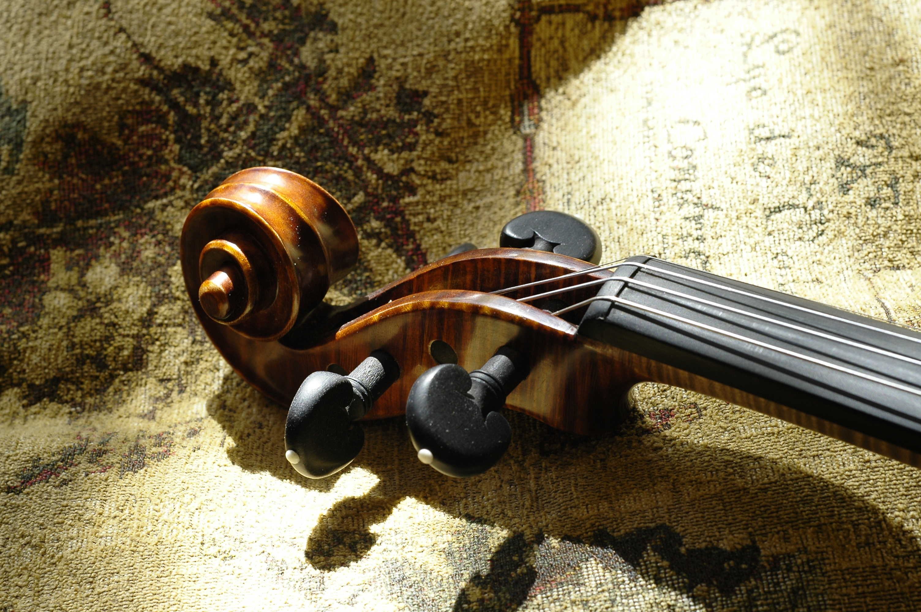 Pegbox and scroll of a Gliga violin. (Made by the luthier:' Vasile Gliga', Roumania.)